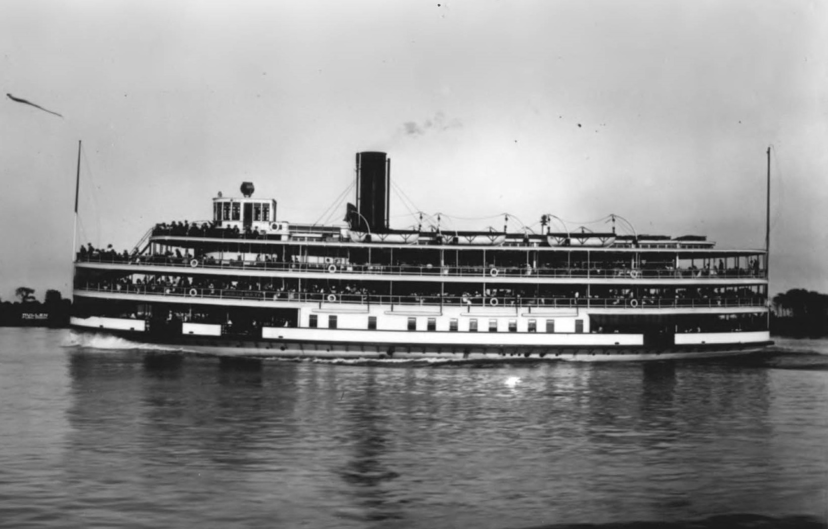 Steamer Ste. Claire, c. 1915.